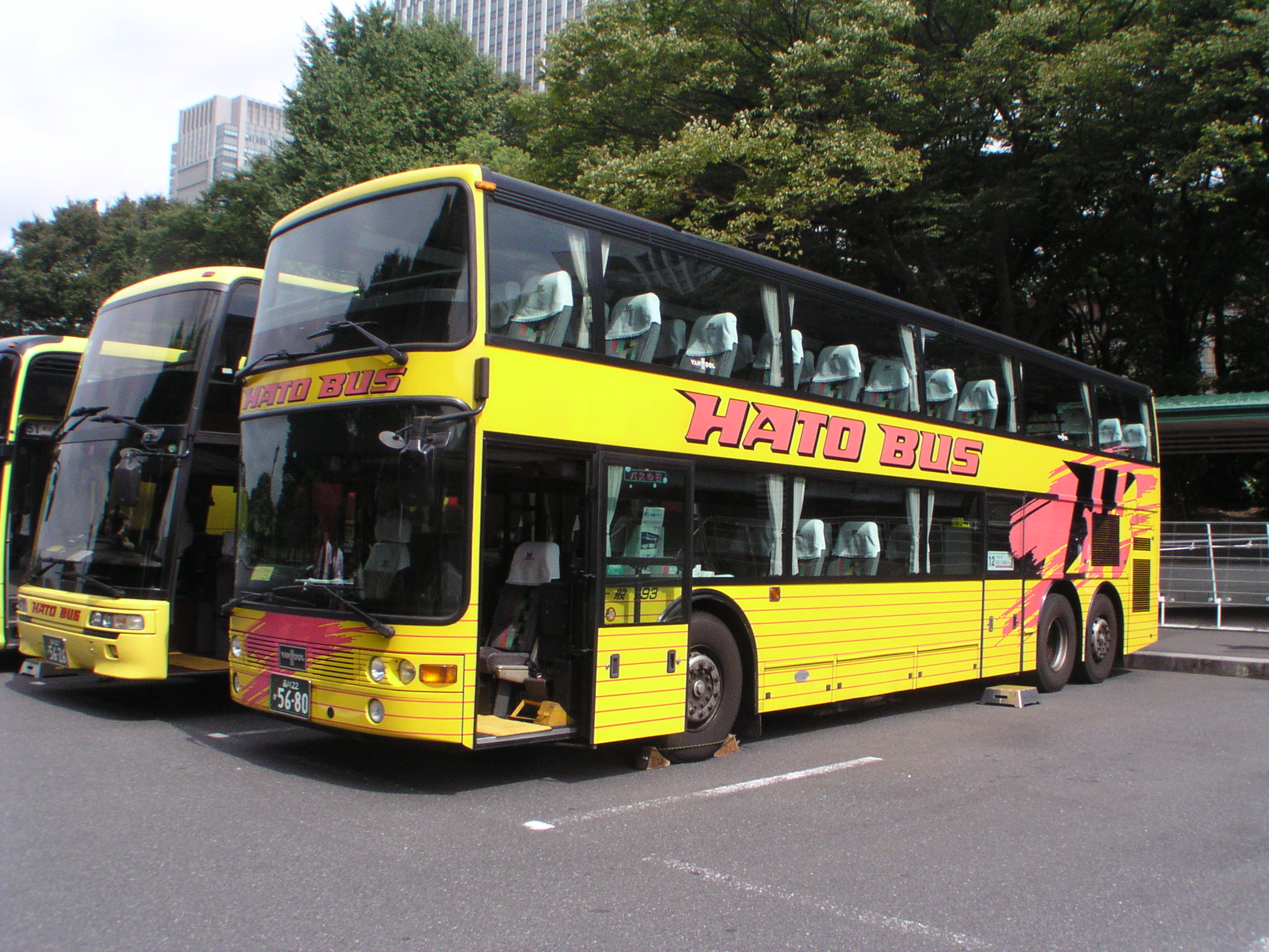 Van Hool Astromega TD824 at Hato Bus. Since March 2005, Hato Bus 2 Astromega converted to "Hello Kitty Bus", in 2012 No.793 converted to open top bus "'O Sola Mio". License plate: TKS22 KA5680 Renumberd since 2005: TKS230 A8602, meaning "Hello Kitty Bus No.2" Place: Nanko Rest House, Yurakucho, Chiyoda Ward, Tokyo, Japan